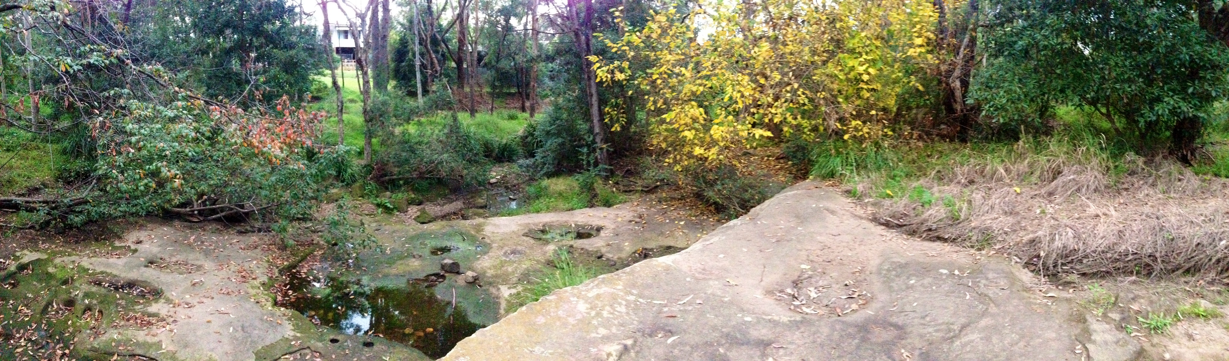 Autumn leaves in the rock feature at the Ponds Walk